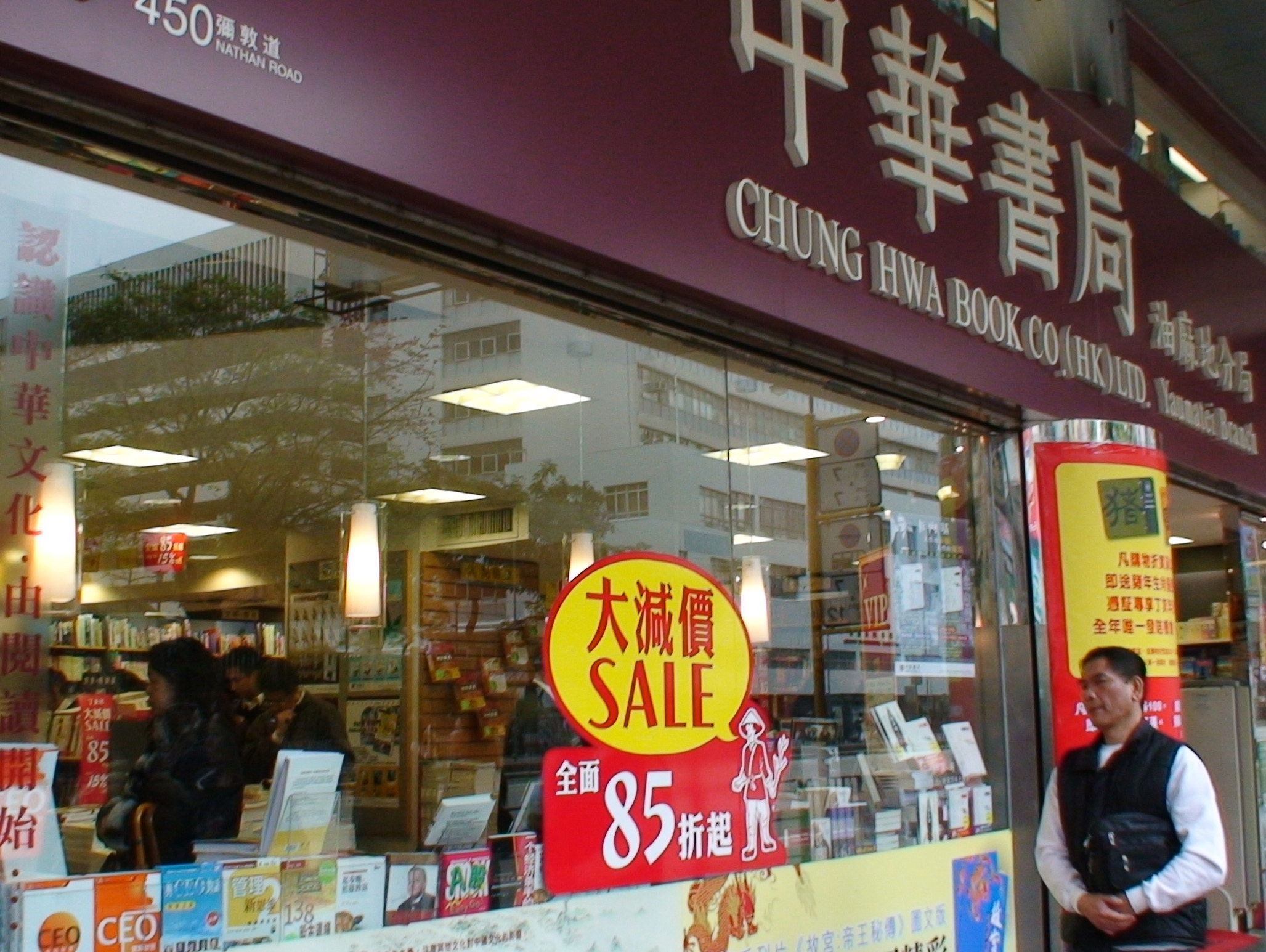 A bookstore in Yau Ma Tei , Hong Kong